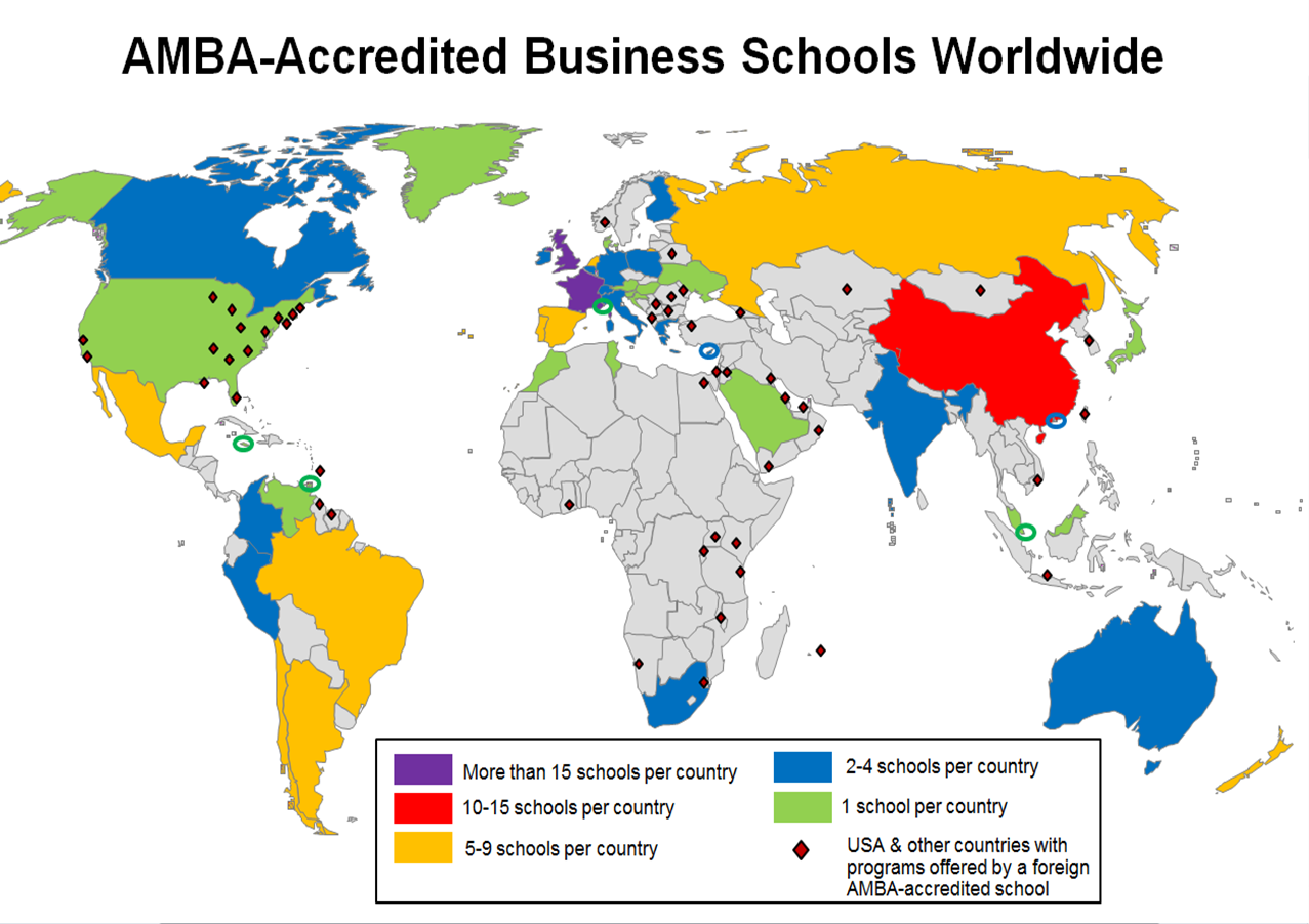 A map of the worldwide presence of AMBA-accredited business schools (by country)